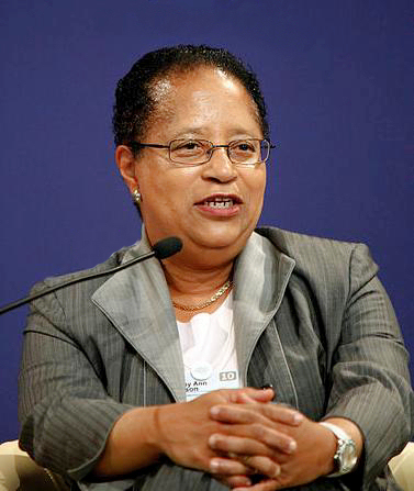 Shirley Ann Jackson, President, Rensselaer Polytechnic Institute (RPI), speaks during the "WHAT IF: the United States remains in a jobless recovery in 2011?" session at the Annual Meeting of the New Champions in Tianjin, China, September 15, 2010.